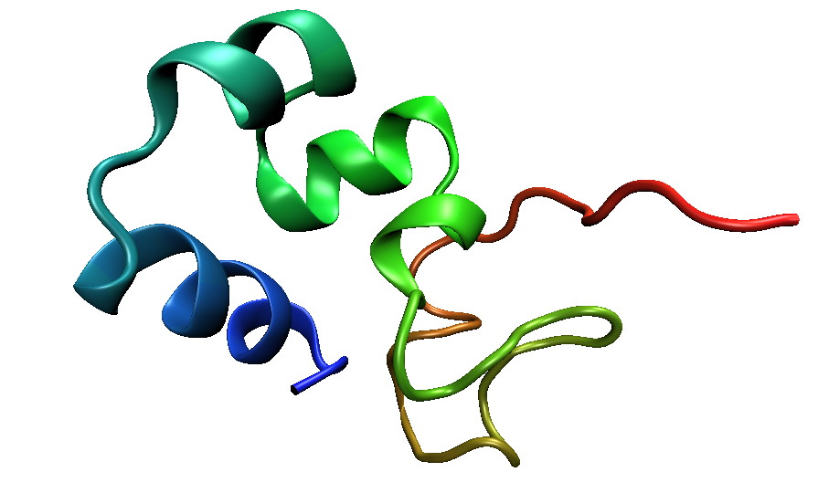 An example of a three-helix bundle protein fold, the headpiece from chicken villin (PDB ID 1QQV).